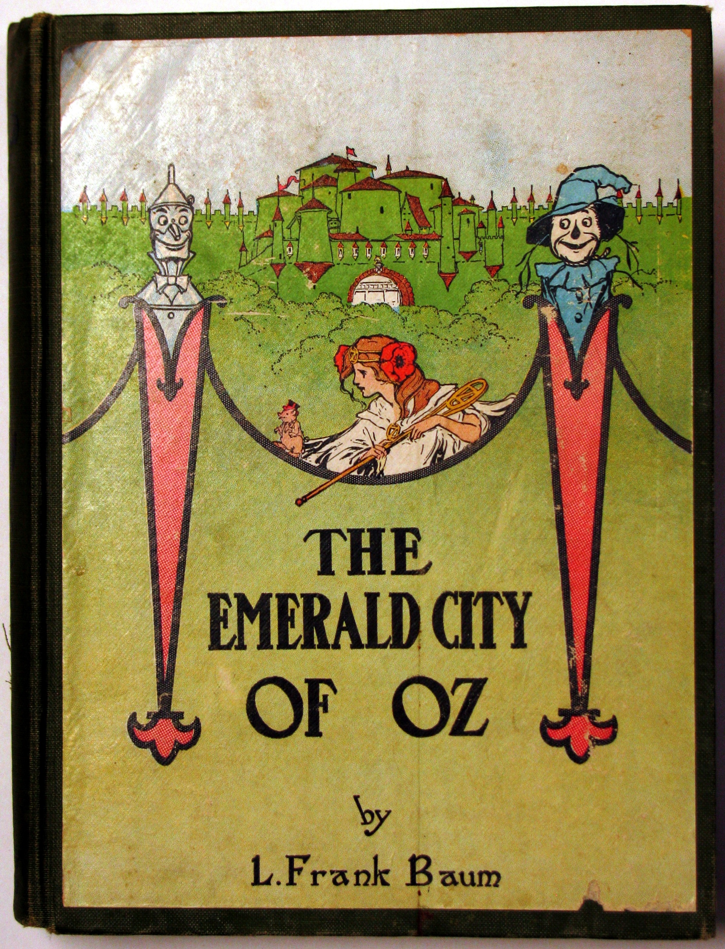 Cover of L. Frank Baum's The Emerald City of Oz (Reilly & Lee Co., Chicago, 1910). Illustrated by John R. Neill.